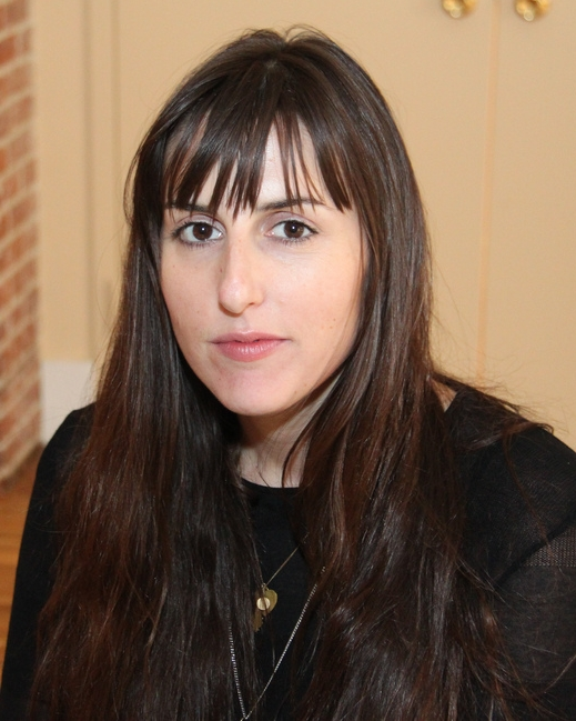 Mumblecore director Ry Russo-Young 2012, photo by Adam Schartoff